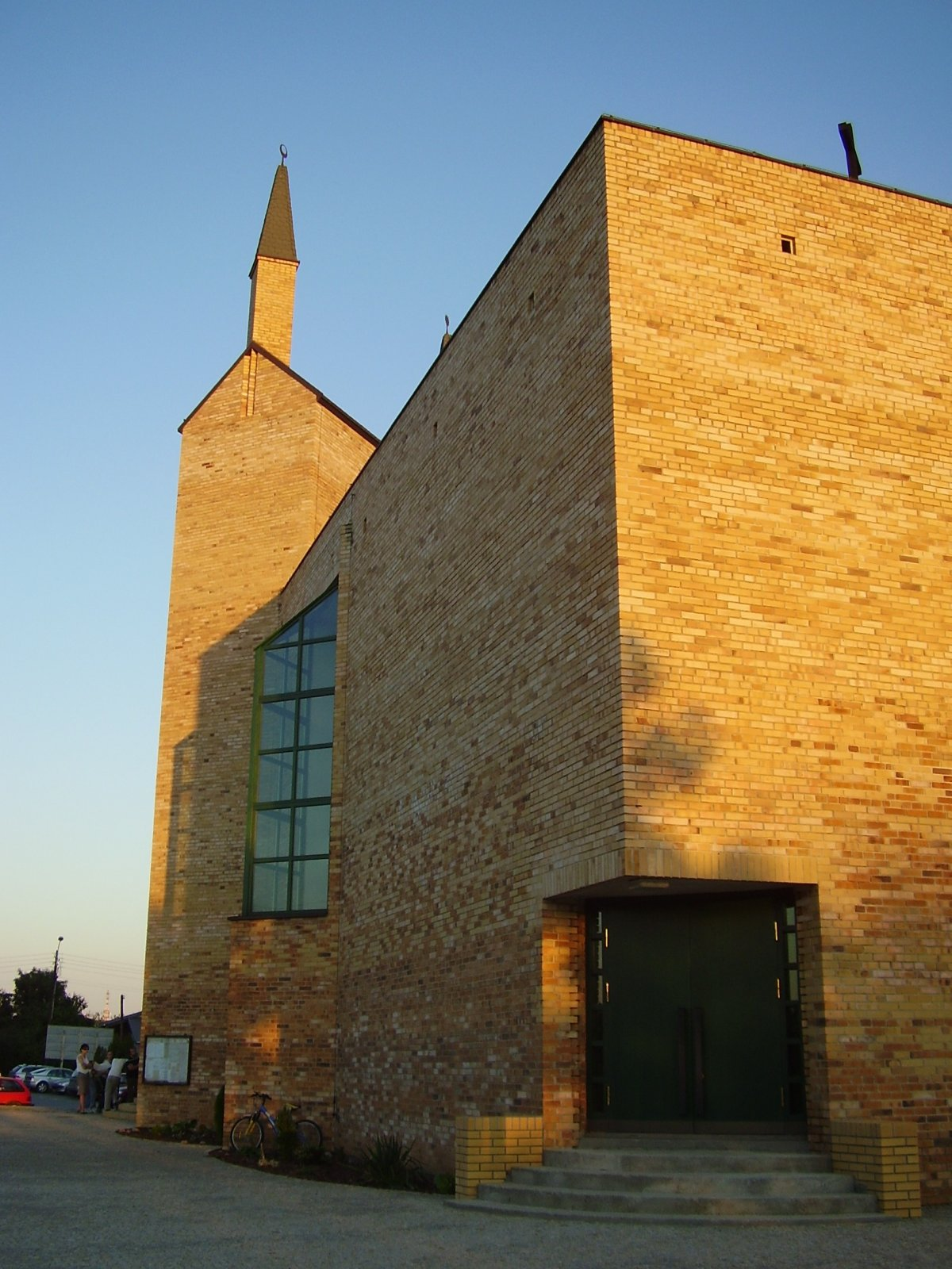 Church in Suchy Las near Poznań, Poland